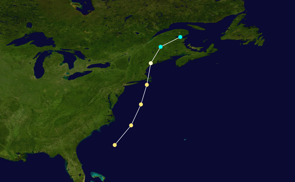 1869 New England hurricane track. Uses the color scheme from the Saffir-Simpson Hurricane Scale.